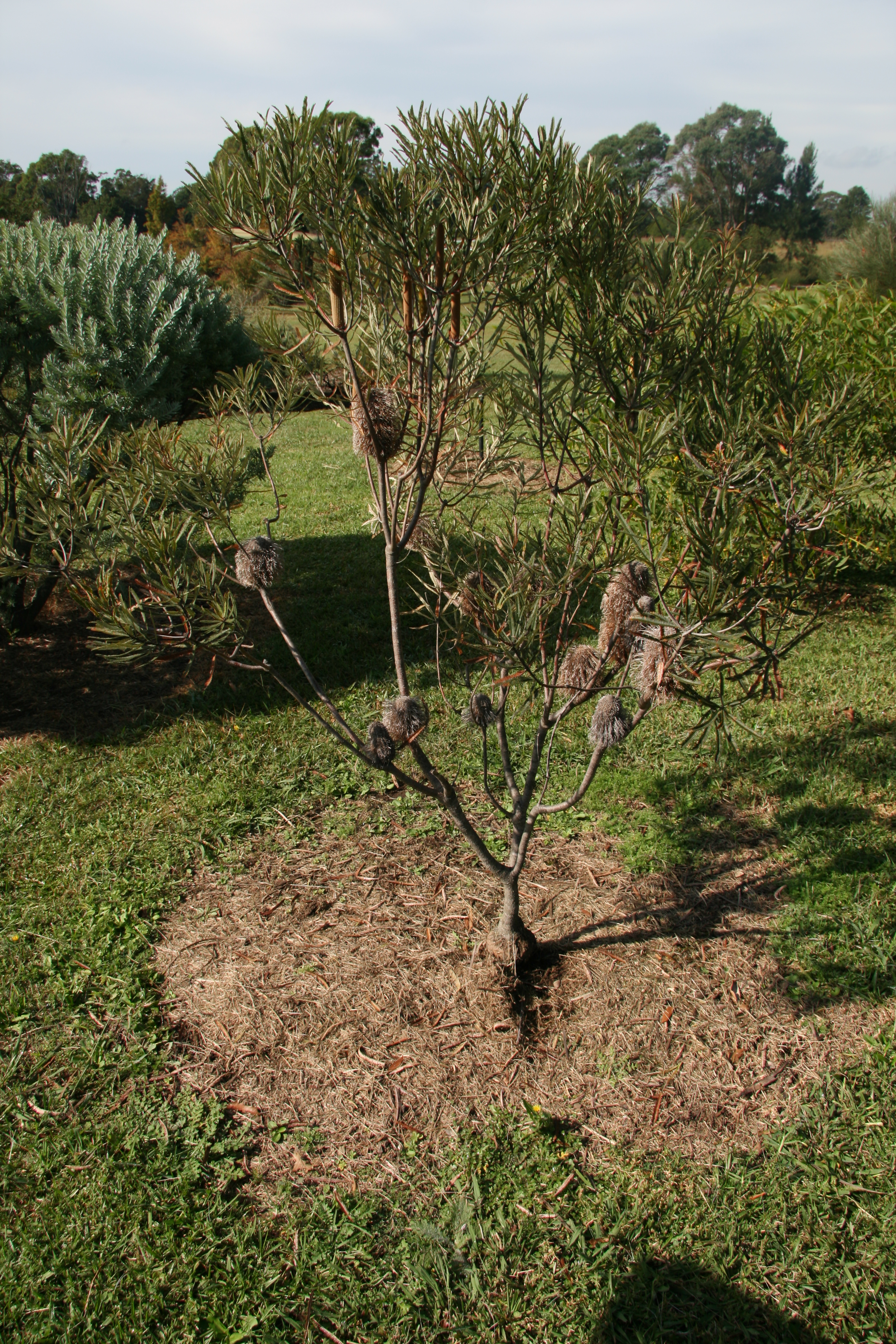 Grafted Banksia (I think this is Banksia brownii but needs a better photo), Olde Garden, Oakdale NSW